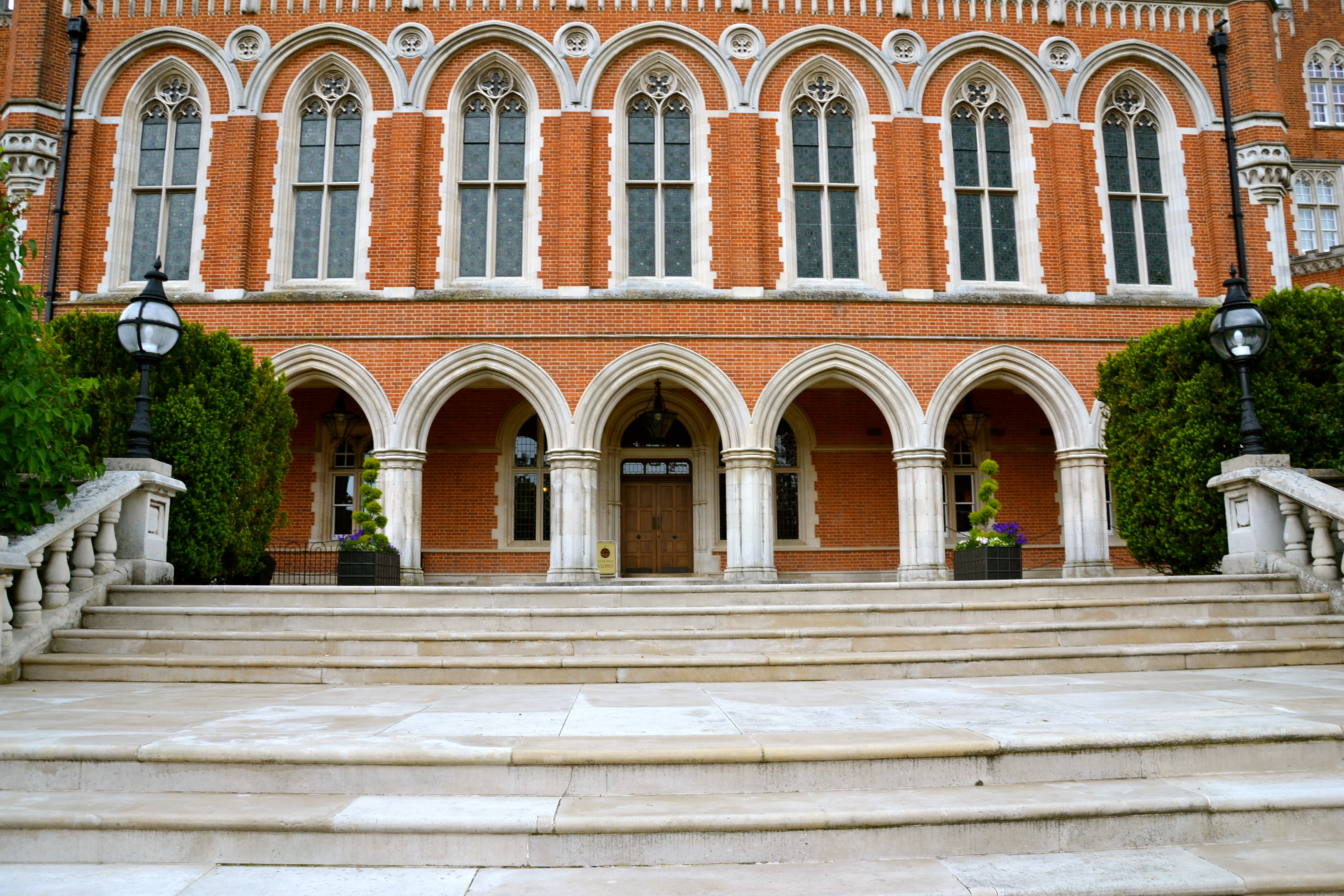 The Chapel at Former Holloway Sanatorium Virginia Water